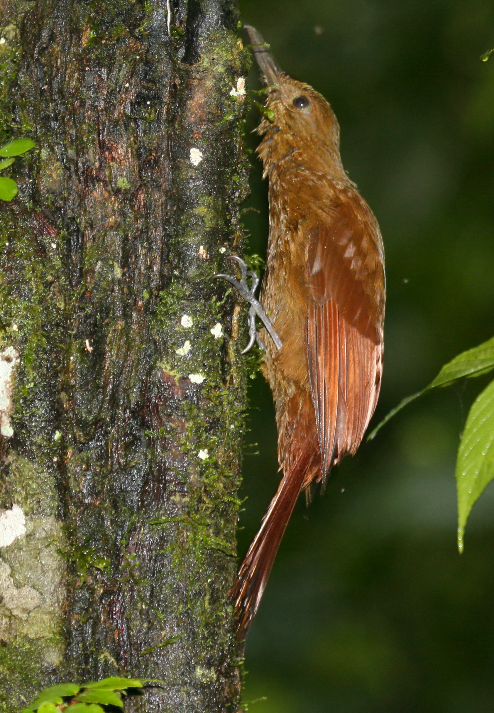 Tyrannine woodcreeper (Dendrocincla tyrannina), Tandayapa Valley, Ecuador